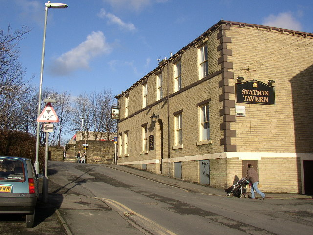 Station Tavern, Crown Street, Cleckheaton, West Yorkshire, England. The station was to the left, and there were sidings straight ahead on a site now occupied by a supermarket and its car park.